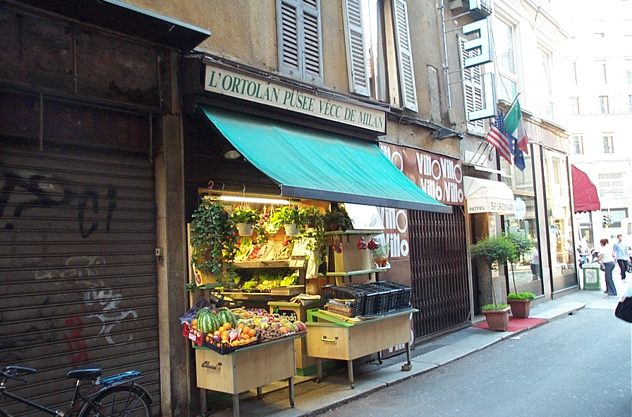 A greengrocer's in Milan, with a sign in Milanese dialect, claiming to be 'The Oldest Greengrocer of Milan' (L'Ortolán püŝee vêcc de Milan), 2004-06-10. Copyright © Kaihsu Tai